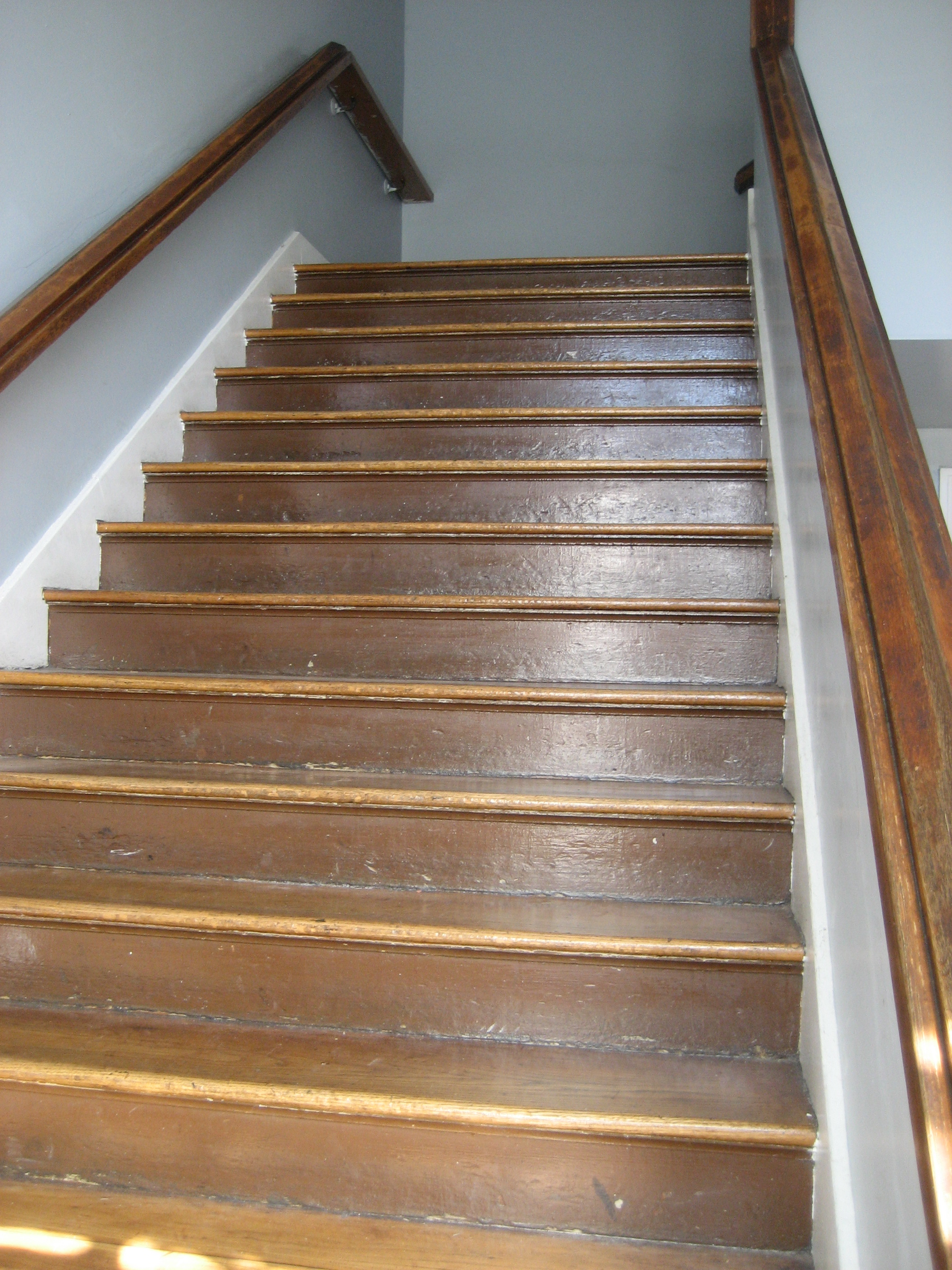 Carrollton section of New Orleans: Staircase inside the old Carrollton Town Hall building (now housing a school).